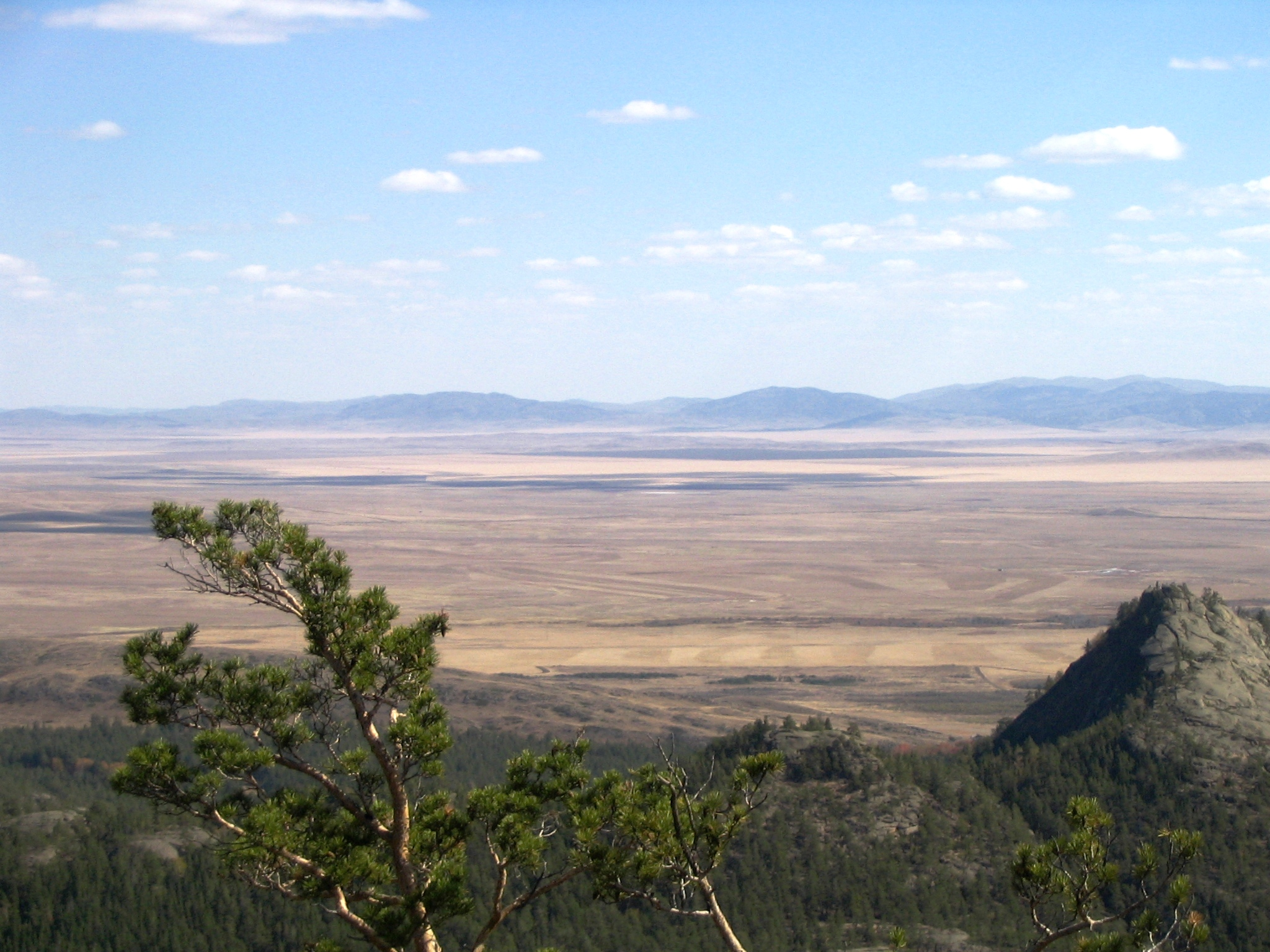 Reserve Karkaralinsky in Qaraghandy Province